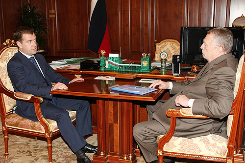 THE KREMLIN, MOSCOW. With Vladimir Zhirinovsky, leader of the LDPR (Liberal Democratic Party of Russia) faction in the State Duma.